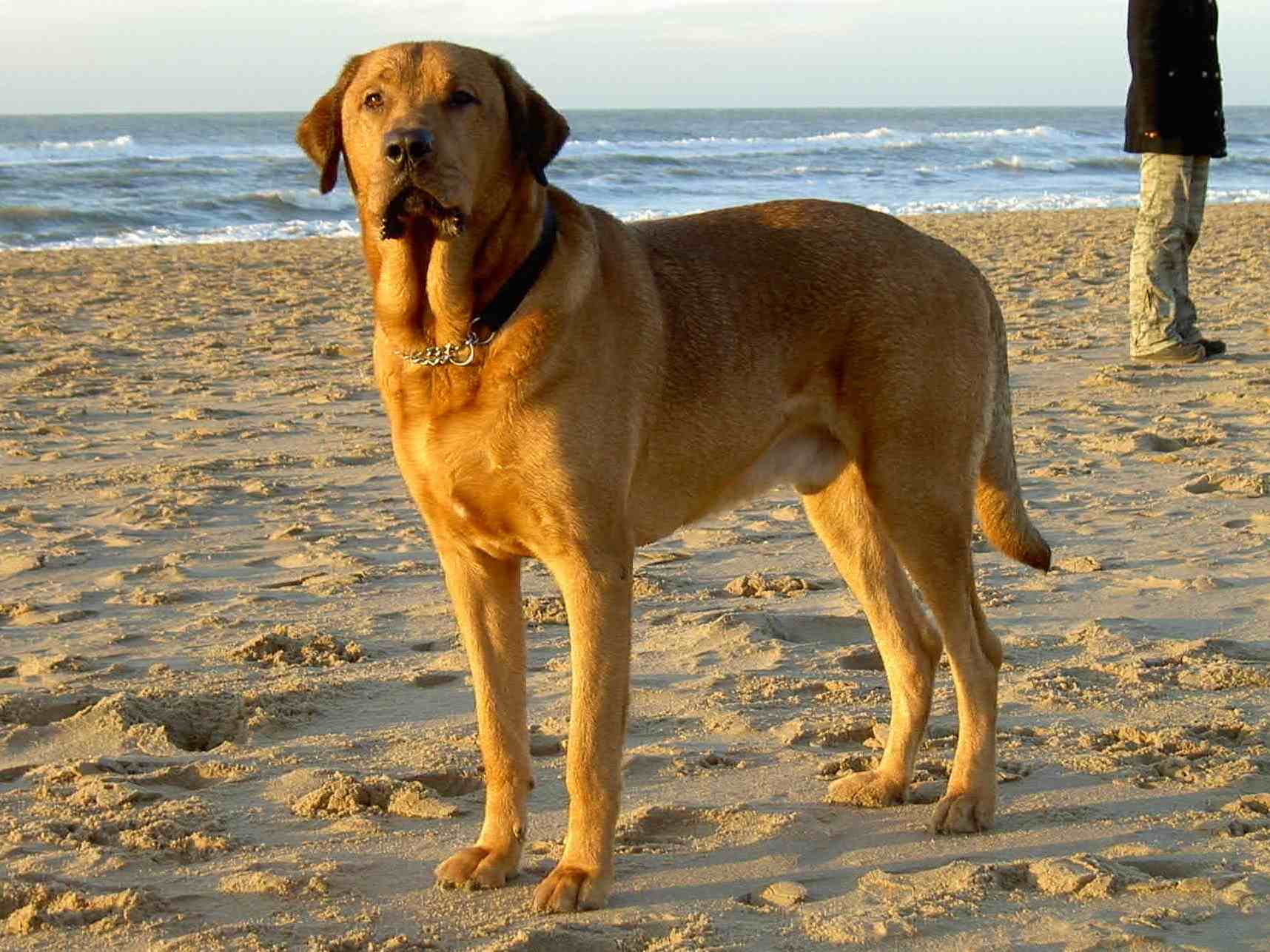 Picture of a Broholmer at the beach. Picture taken by Arenda Molkenboer.